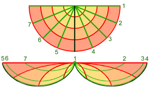 Fermat principle seen as a deformation of a geometry, for a brachistochrone